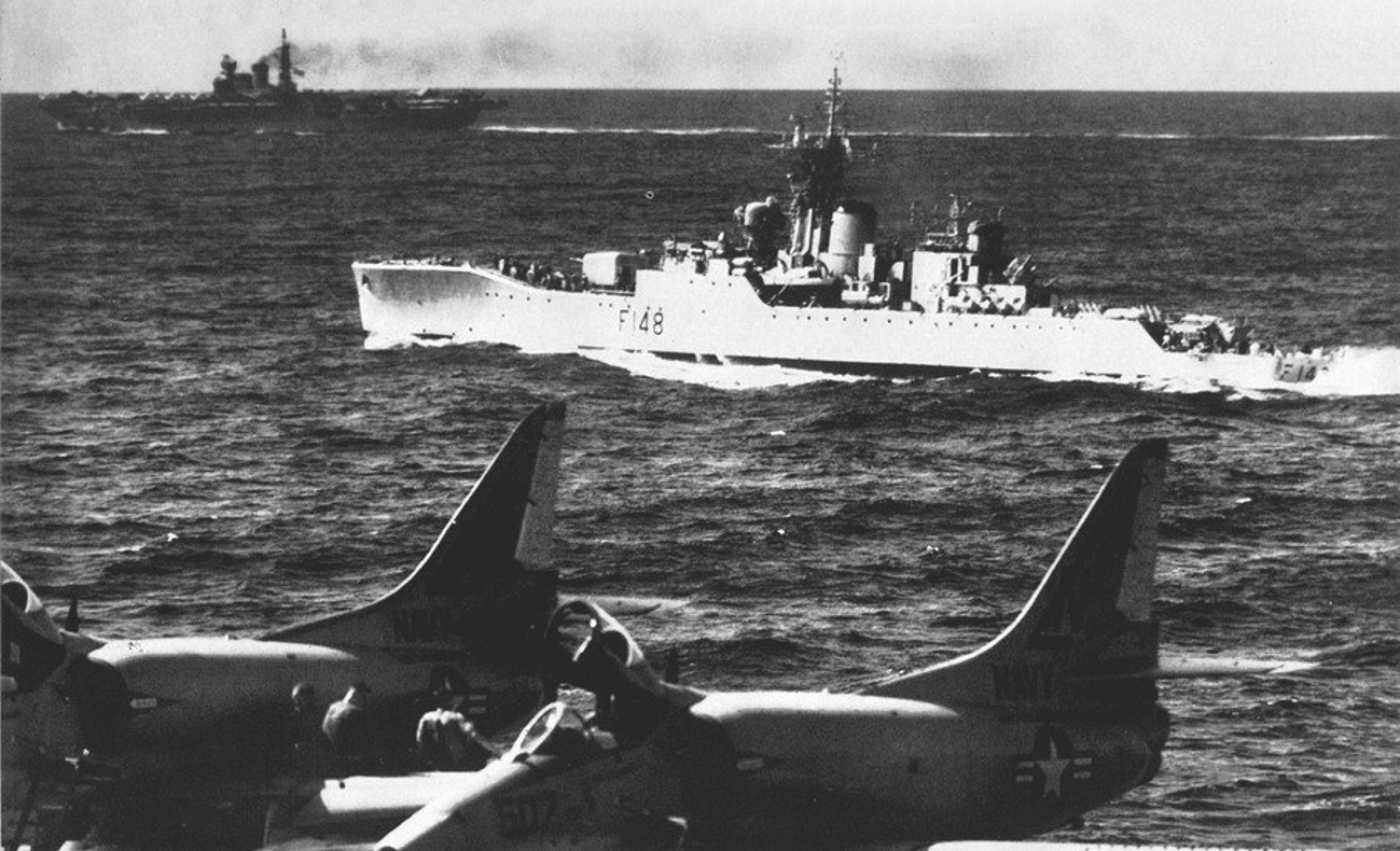 The Royal New Zealand Navy frigate HMNZS Taranaki (F148) underway during a SEATO-exercise off the Philippines in May 1964. The photo was taken from the U.S. Navy aircraft carrier USS Ticonderoga (CVA-14). Two Douglas A-4E Skyhawk from Attack Squadron 55 (VA-55) "Warhorses" are visible in the foreground. VA-55 was assigned to Attack Carrier Air Wing 5 (CVW-5) aboard the Ticonderoga for a deployment to the Western Pacific and Vietnam from 14 April to 15 December 1964. The Royal Navy aircraft carrier HMS Victorious (R38) is visible in the background.